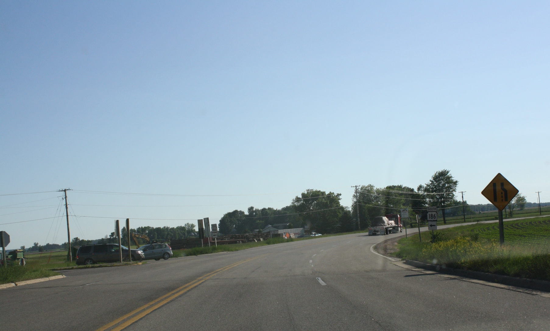 Looking at the north terminus for Wisconsin Highway 186 while traveling on U.S. Route 10.